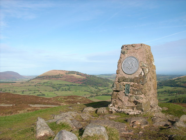 Triangulation pillar on Gowbarrow Fell Great Mell Fell is the hill in the background